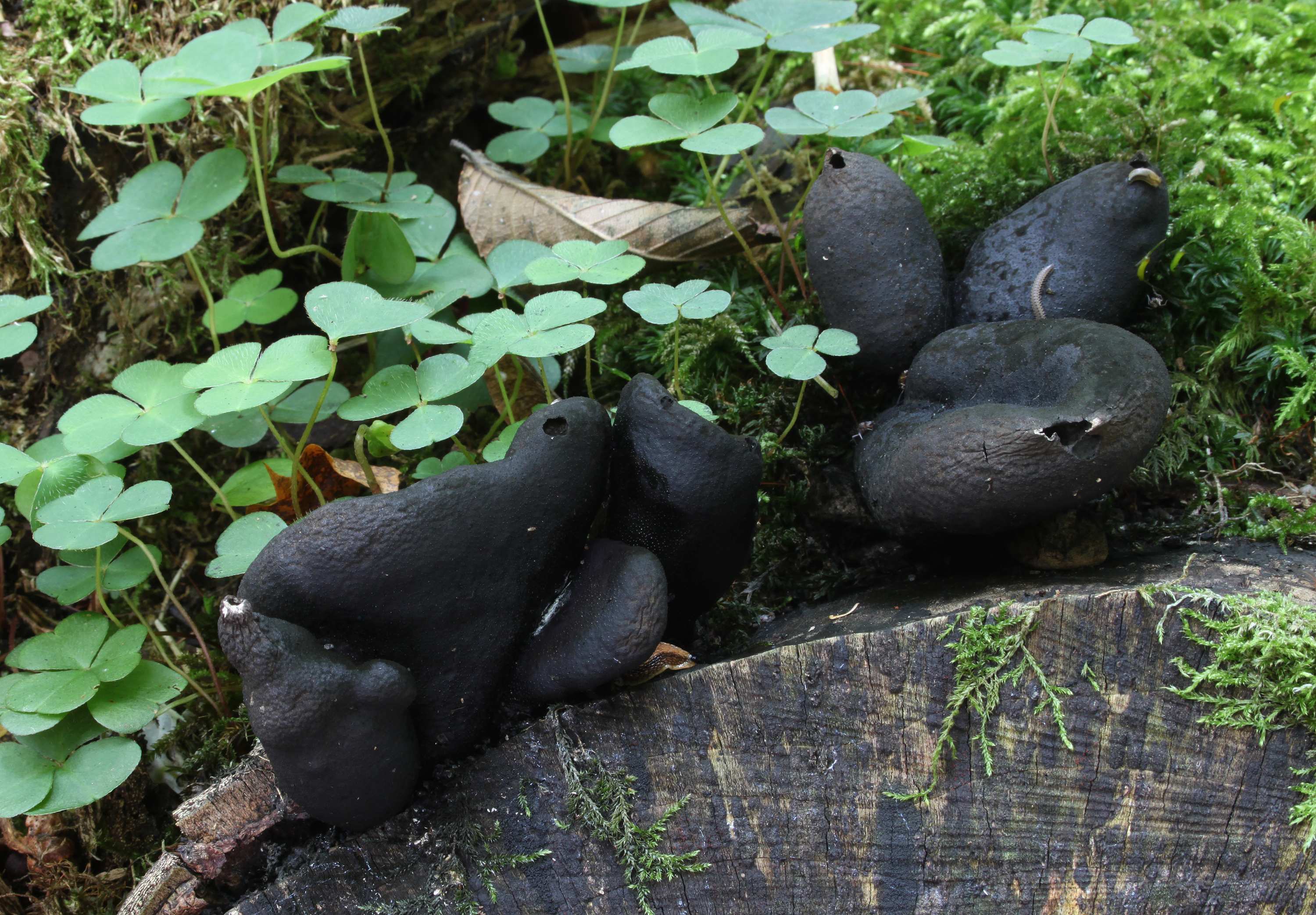 Dead Man's Fingers Xylaria polymorpha, Family: Xylariaceae, Location: Germany, Ulm, Unterweiler